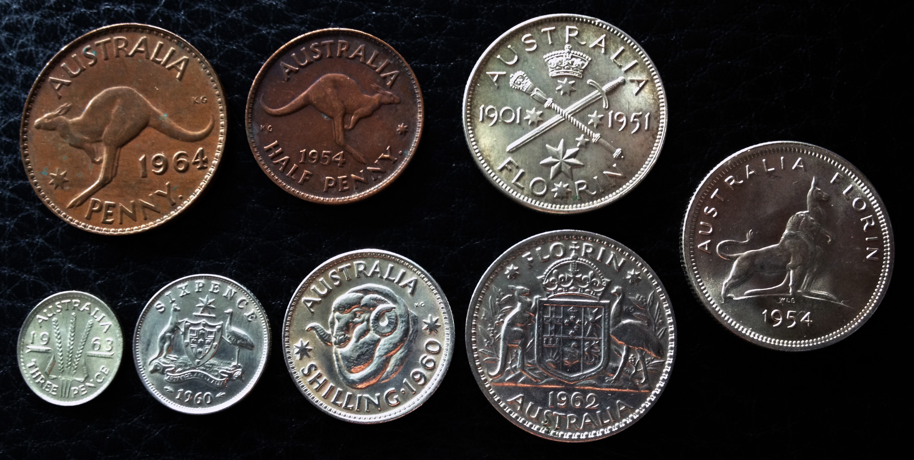 Showing Half Penny, Penny, 3 Pence 6 pence 1 shilling, 1 florin, and Crown coins.